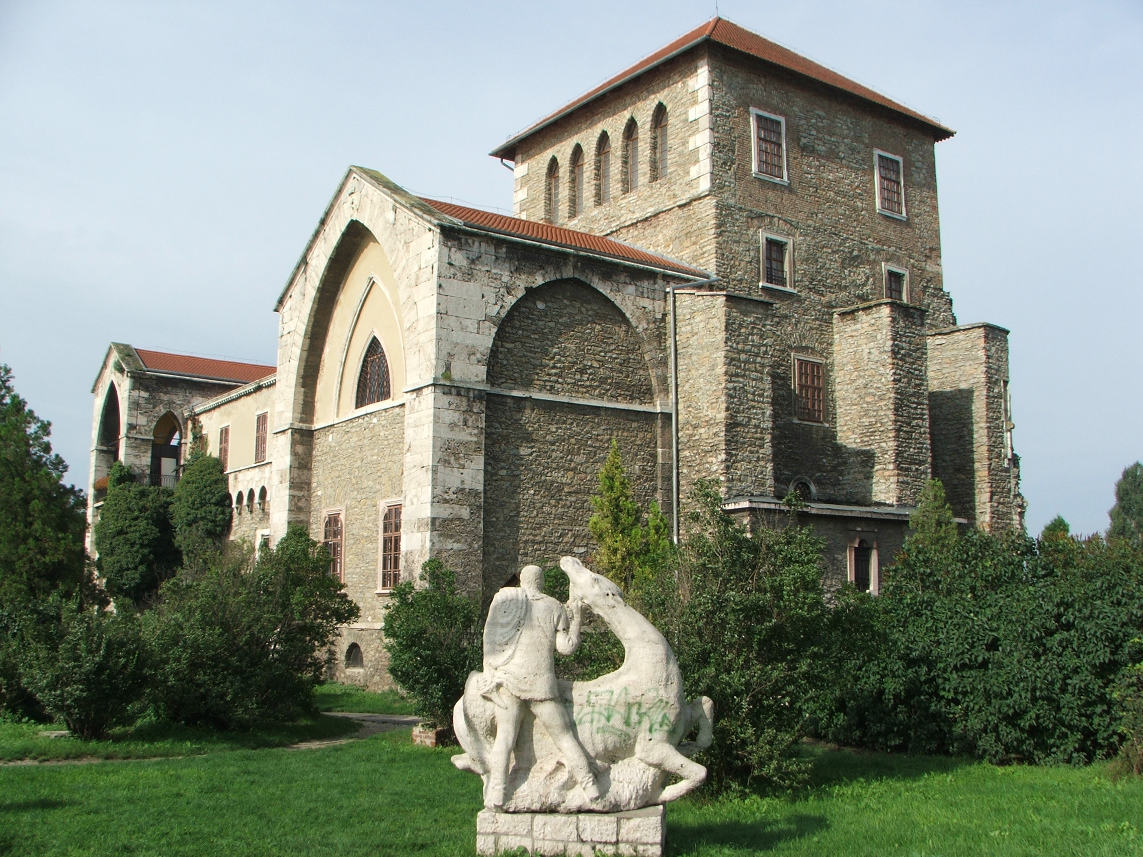 Tata castle Photo: József Süveg (2005)